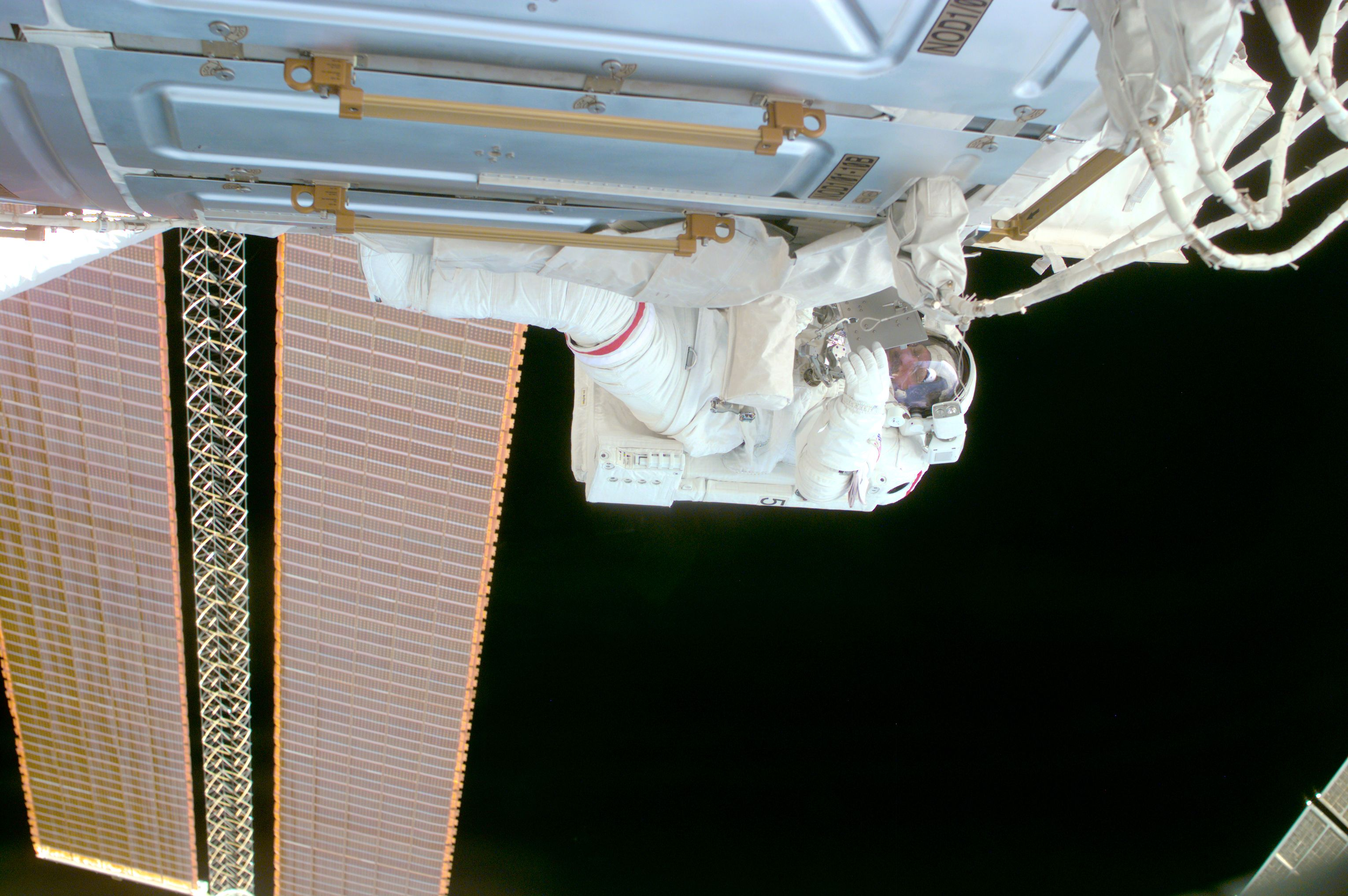 Astronaut Joseph R. Tanner wraps up extravehicular tasks on the final of three STS-97 space walks on the International Space Station (ISS). Part of the new solar array panel can be seen on the left side of the frame.